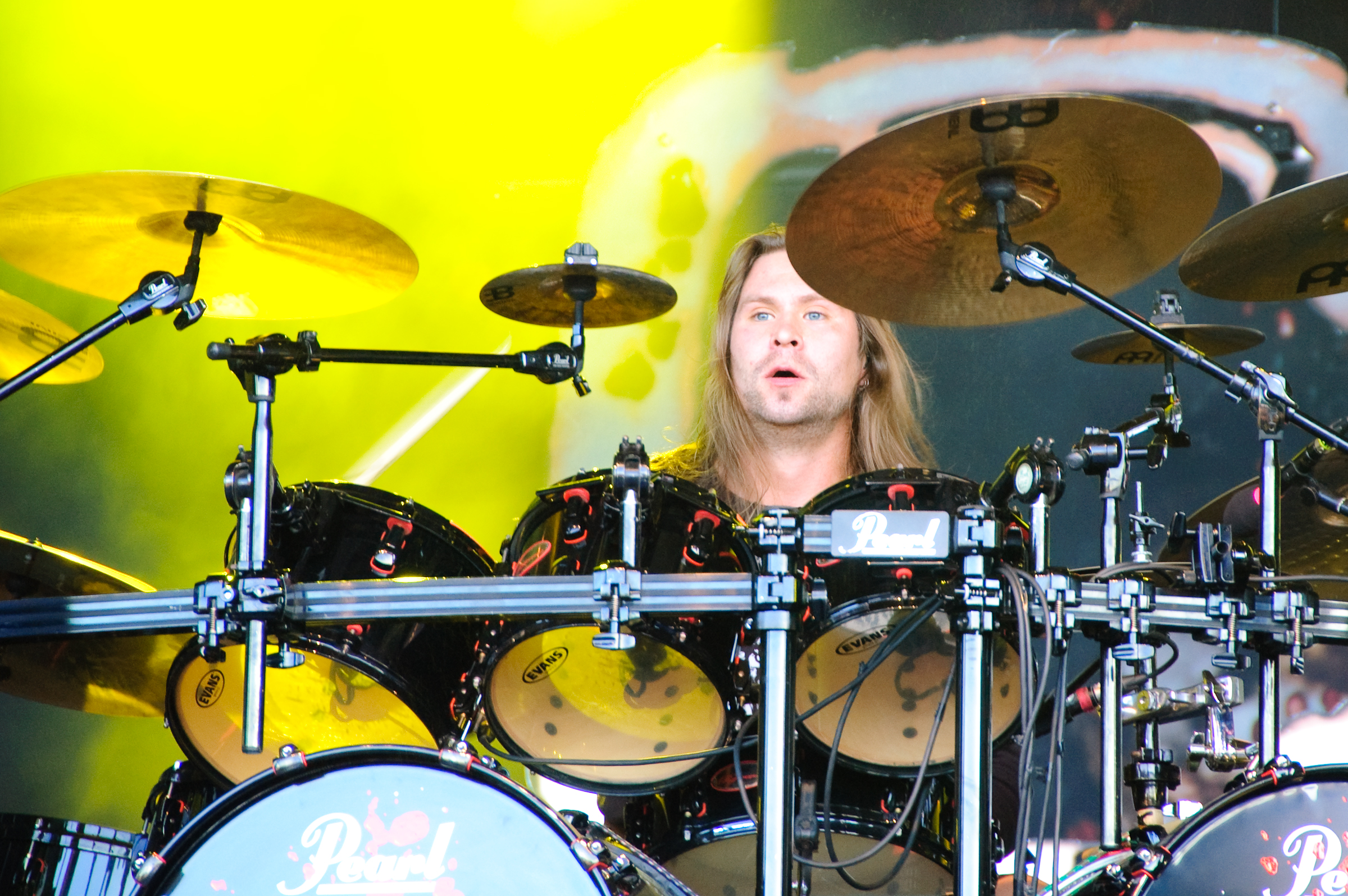 Drummer Jaska Raatikainen of Children of Bodom performing at the Ilosaarirock festival in Joensuu, Finland.